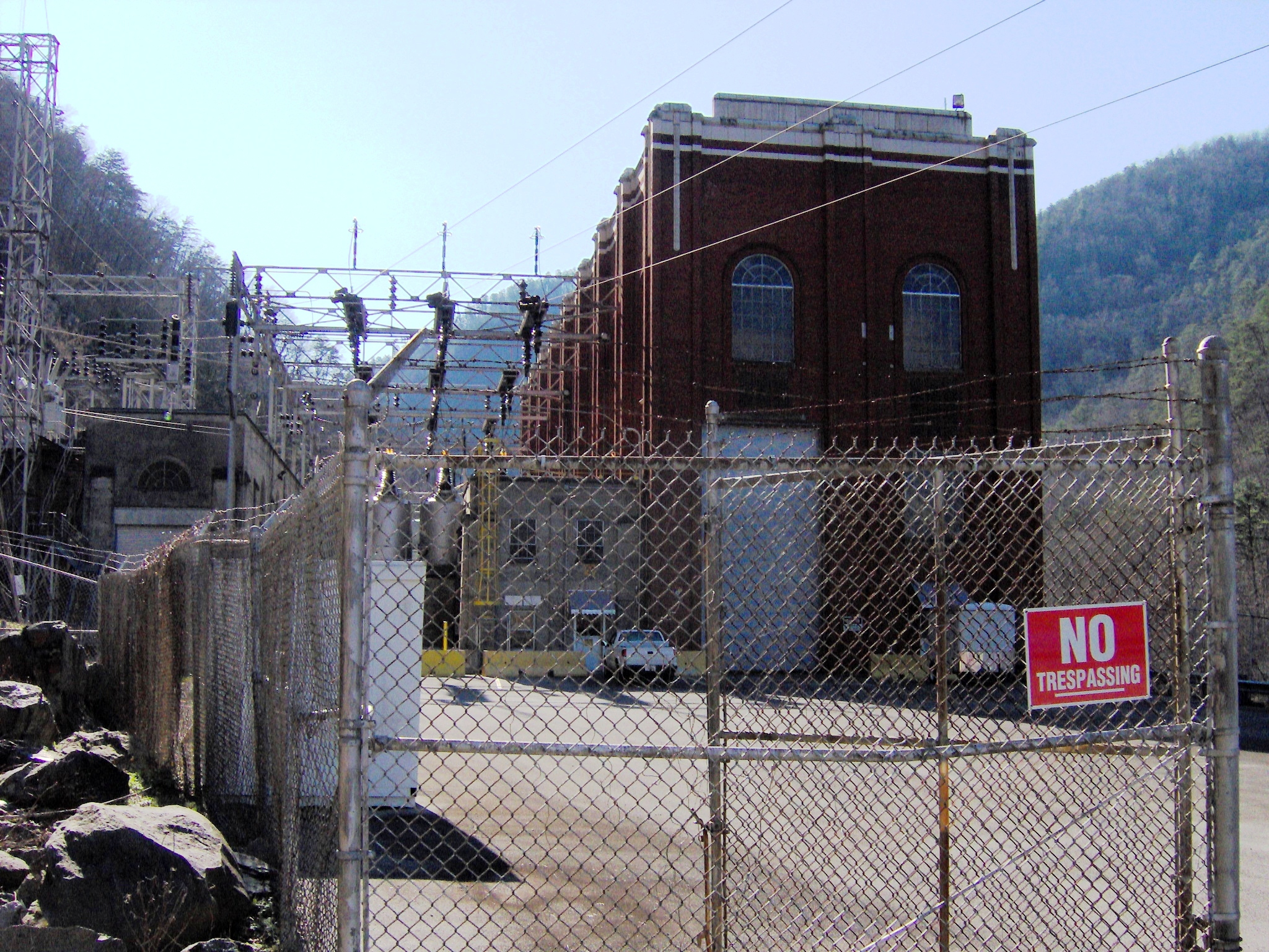 The Calderwood Dam Powerhouse in Blount County, Tennessee, USA. The powerhouse is located about a mile downstream from the dam, and is accessible via gravel road from the old Calderwood community.